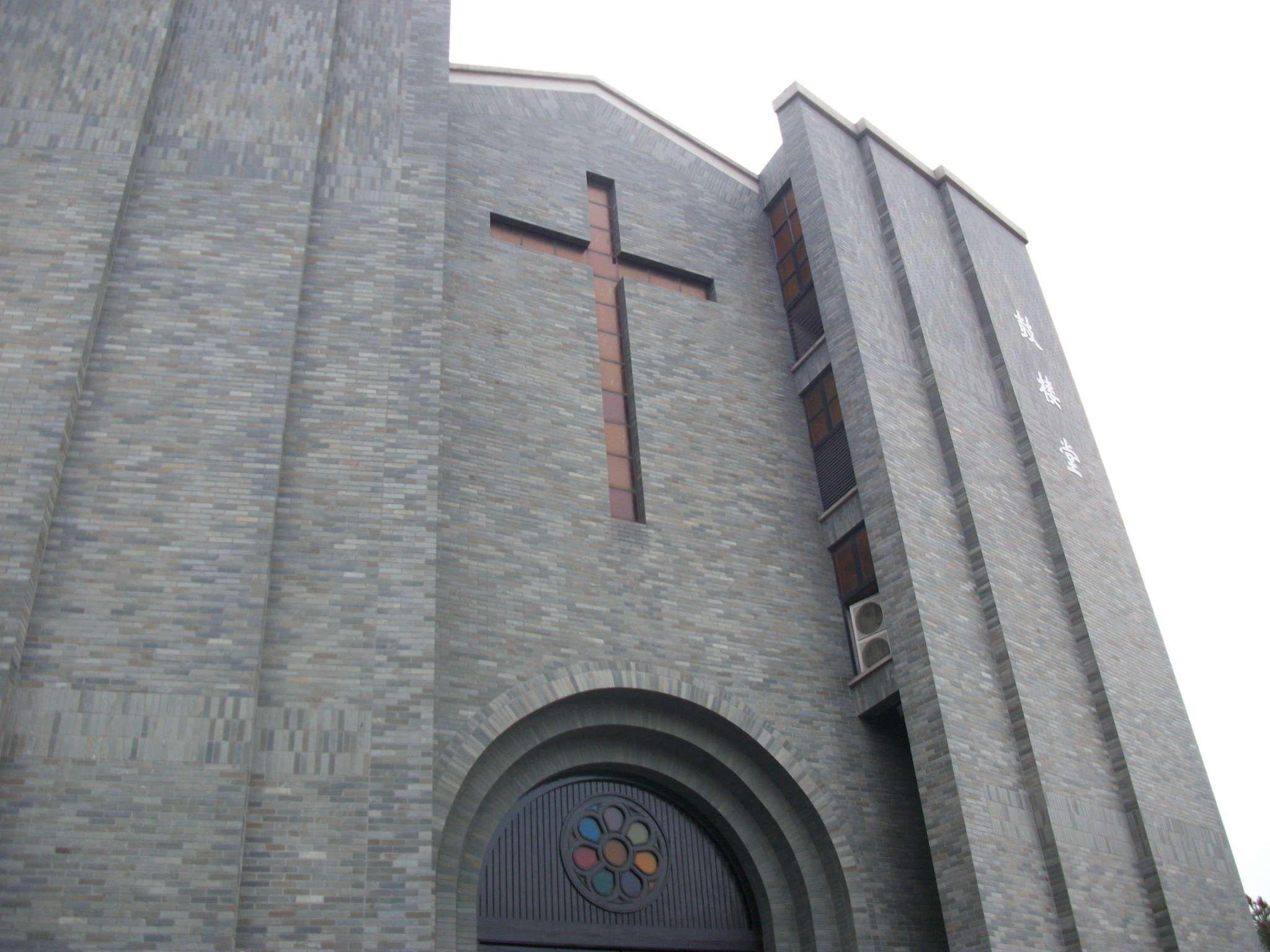 Gulou Church in Hangzhou.